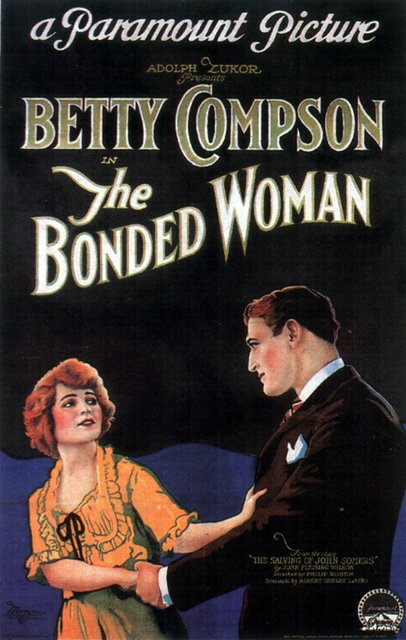 Poster for the American drama film The Bonded Woman (1922).